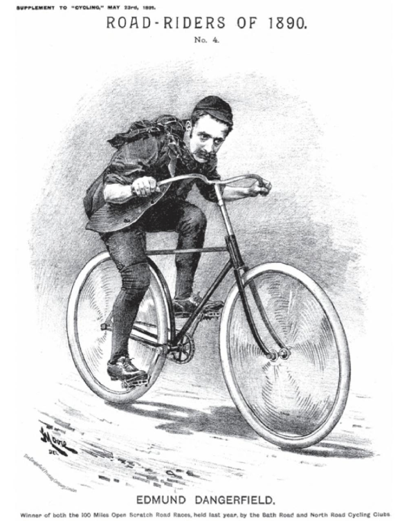 Drawing of a gentleman with moustache and rolled up sleeves on an 1890 bicycle